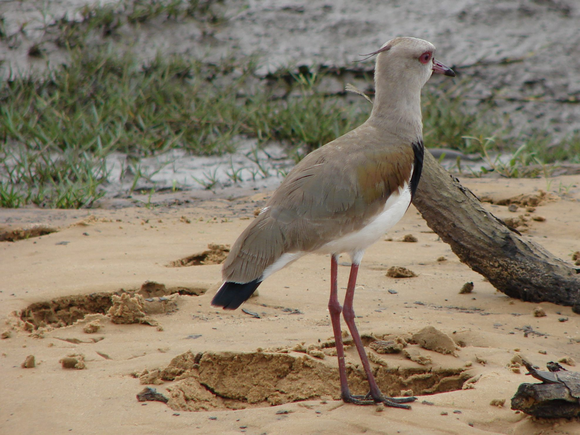 Vanellus chilensis (Southern Lapwing)(Brazil:quero-quero; tetéu). Preguiças River bank, Maranhão, Brazil